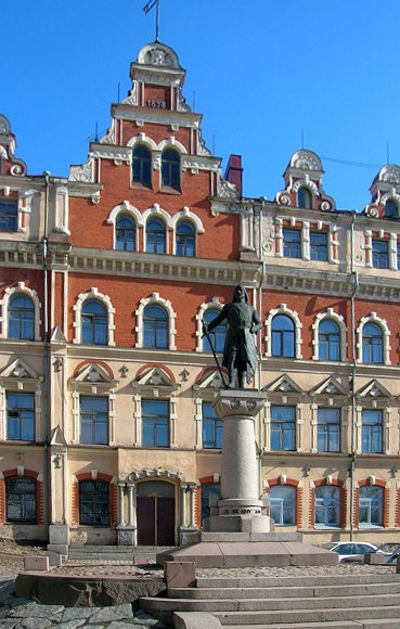 Vyborg. Statue of Torkel Knutsson, the city's founder.